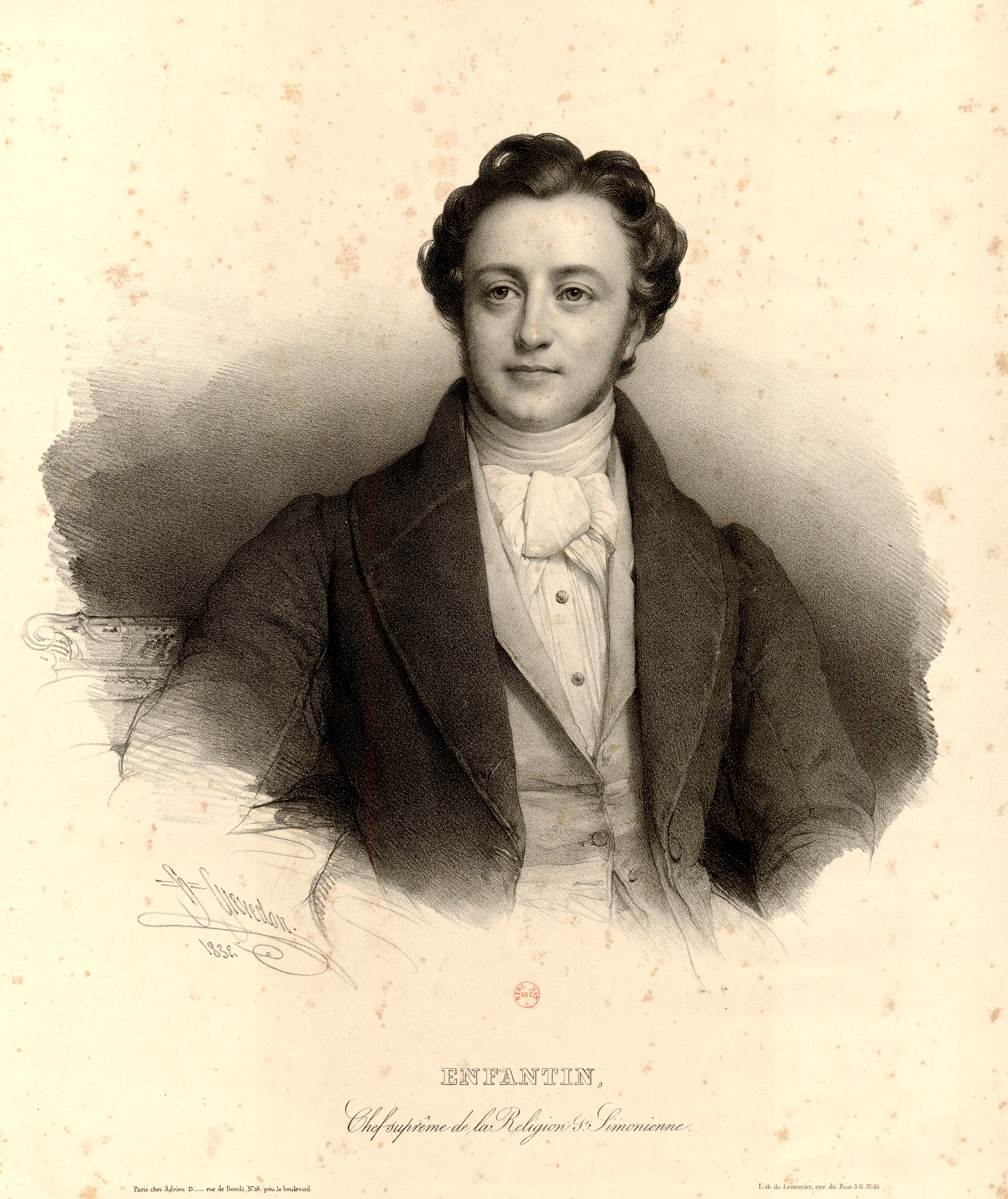 Prosper Enfantin (1796–1864), French social reformer, one of the founders of Saint-Simonianism.